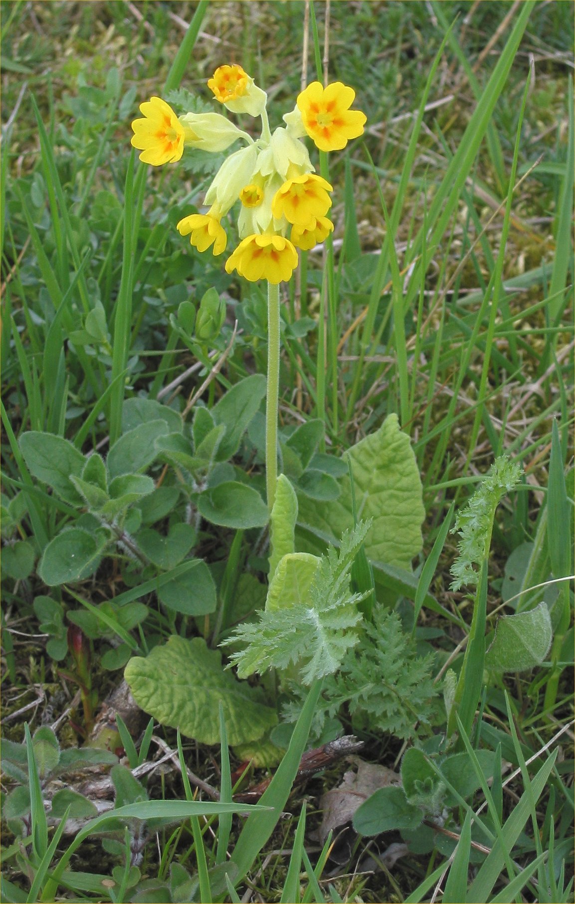 Primula veris